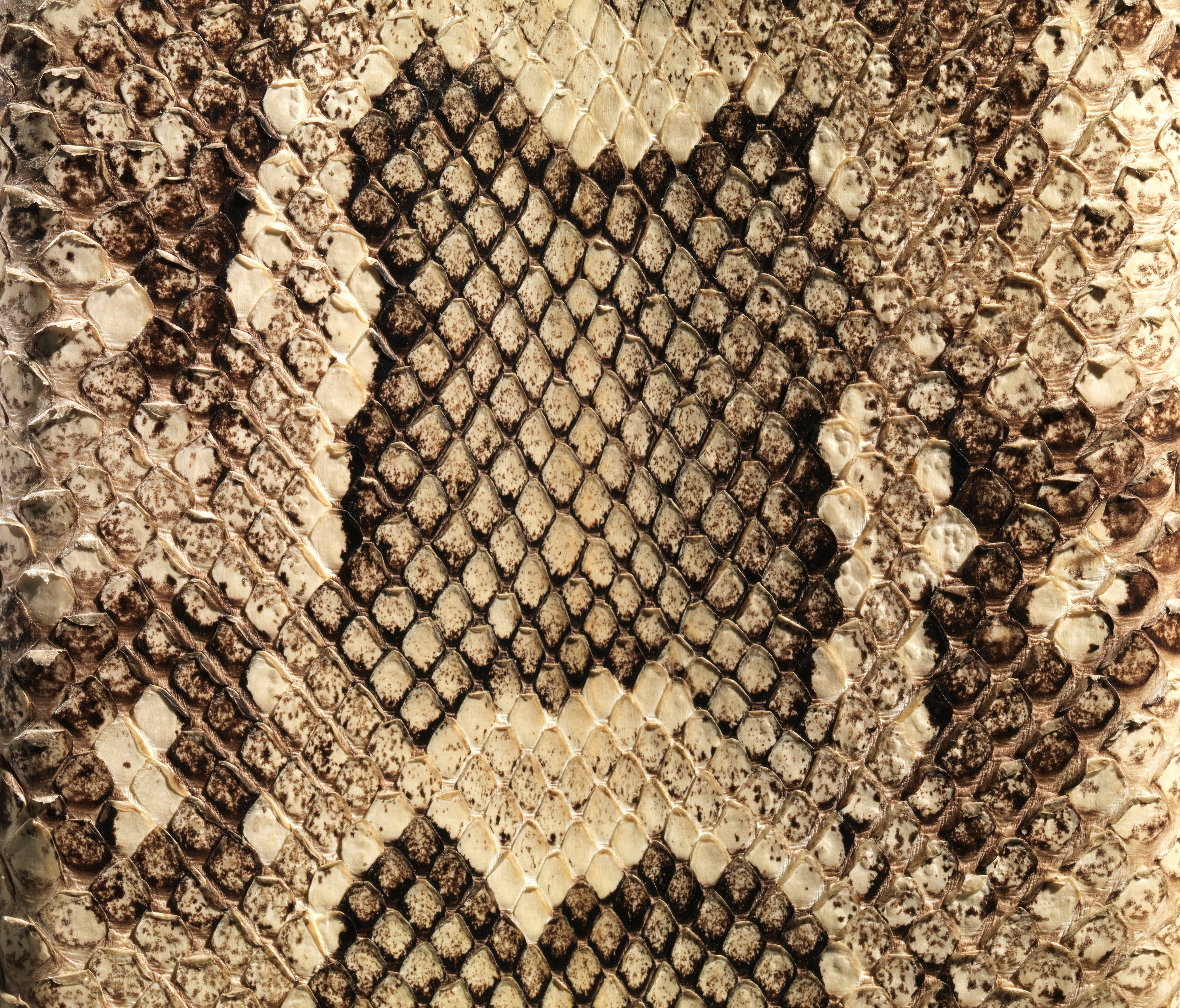 Snake skin cigarette case designed by Pierre Legrain. Detail of the snake skin. For more details